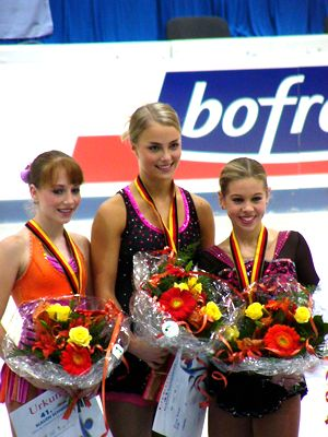 The ladies podium at the 2004 Junior Grand Prix event in Germany. Left-to-right: Danielle Kahle (silver), Kiira Korpi (gold), Katy Taylor (bronze)